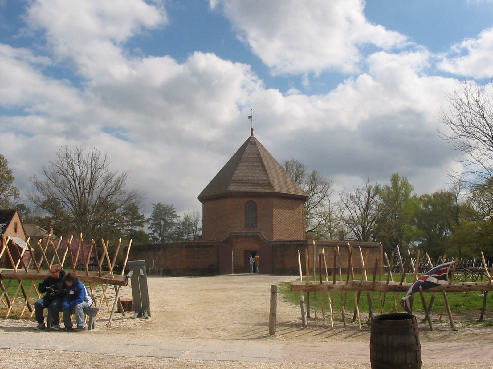 The gunpowder magazine at Colonial Williamsburg.